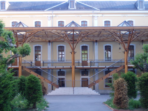 Lycée Berthollet, Annecy, Haute-Savoie, FRANCE